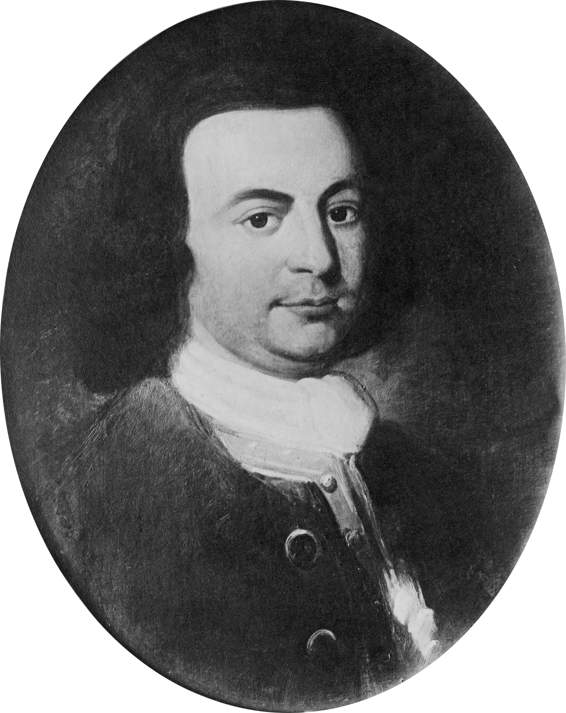 George Mason's portrait